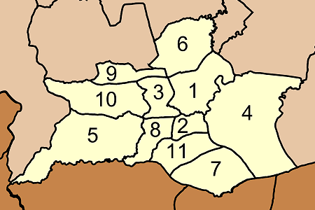 Map of Cha-uat district, Nakhon Si Thammarat province, Thailand, with the communes (tambon) numbered. Cha-uat (ชะอวด) Tha Samet (ท่าเสม็ด) Tha Pra Cha (ท่าประจะ) Khreng (เคร็ง) Wang Ang (วังอ่าง) Ban Tun (บ้านตูล) Khon Hat (ขอนหาด) Ko Khan (เกาะขันธ์) Khuan Nong Hong (ควนหนองหงษ์) Khao Phrathong (เขาพระทอง) Nang Long (นางหลง)